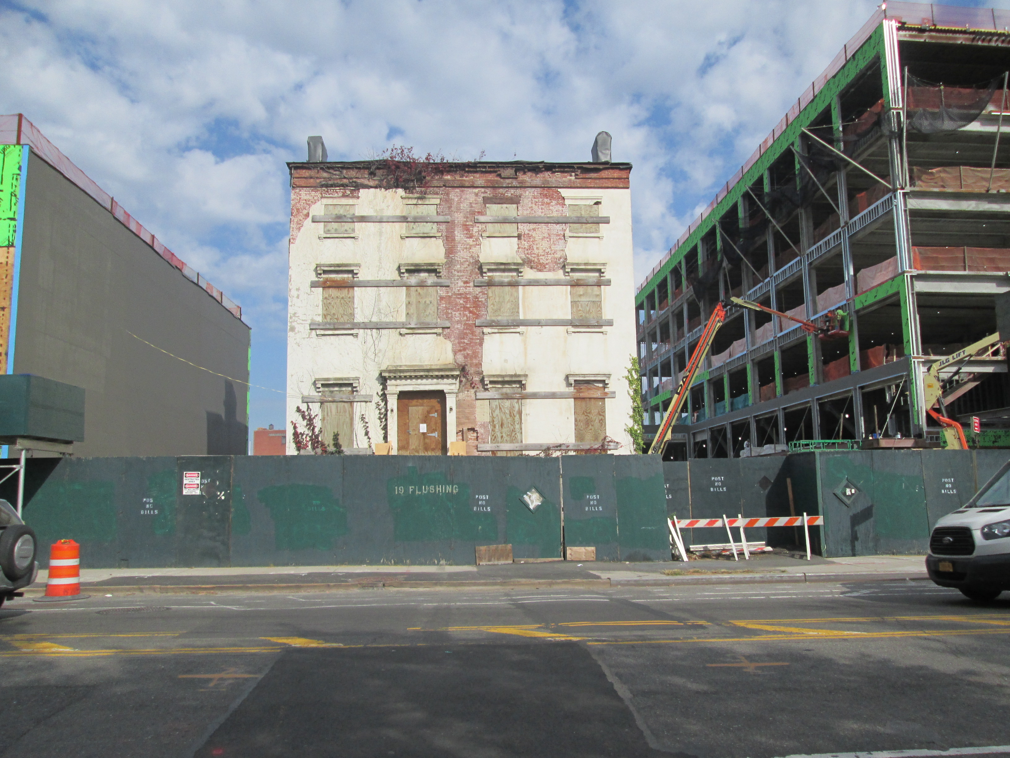 Views of the Brooklyn Navy Yard, October 23, 2018 - Former Admiral's Row